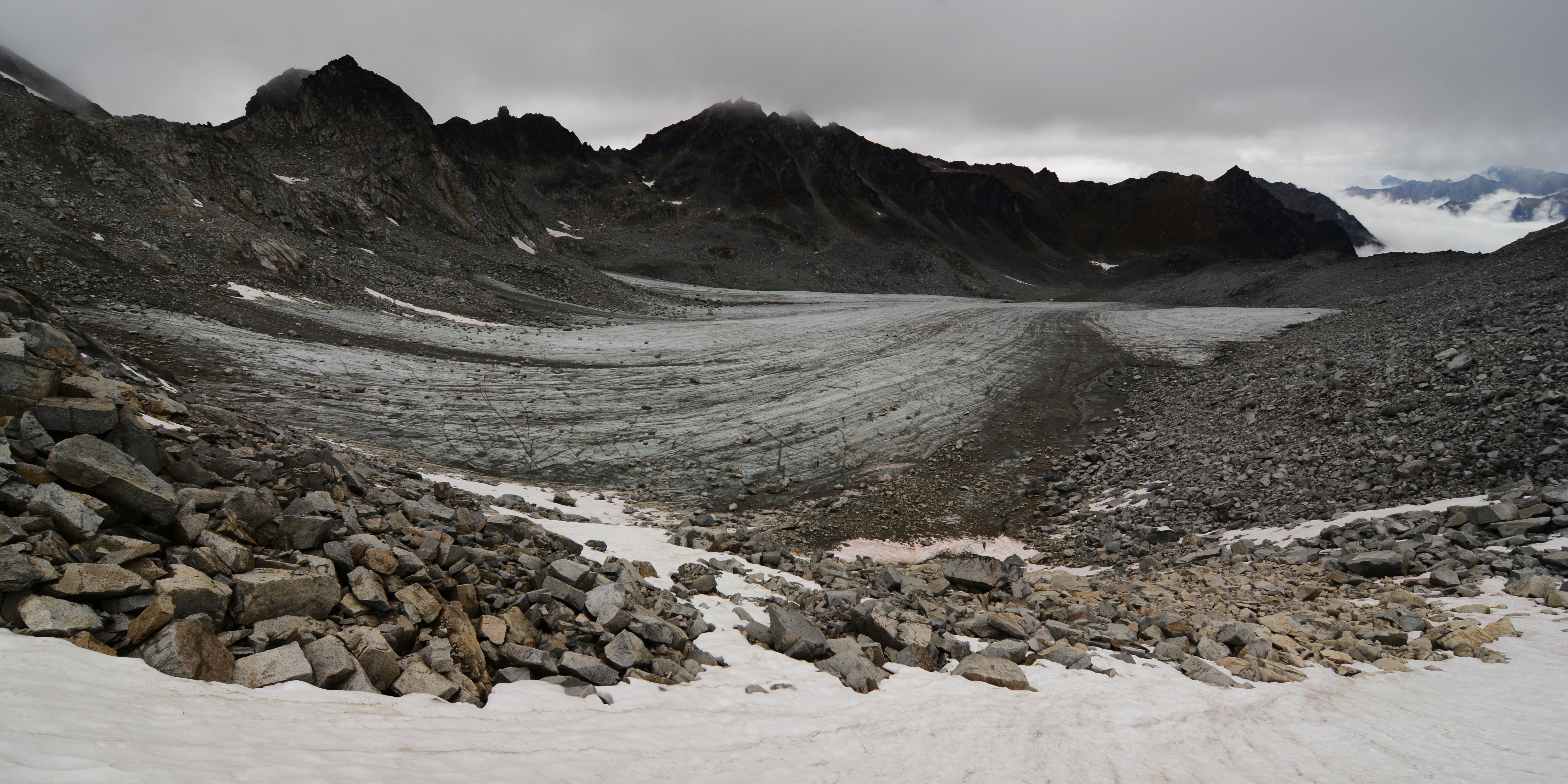 Snowbird Glacier, a glacier/glacial remnant perched in the Talkeetna Mountains of Alaska.